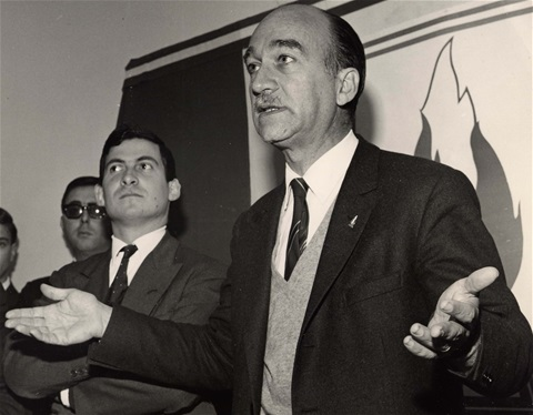 Giorgio Almirante and Bruno Magliocchetti